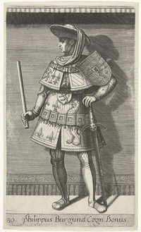 Philip the Good, Duke of Burgundy